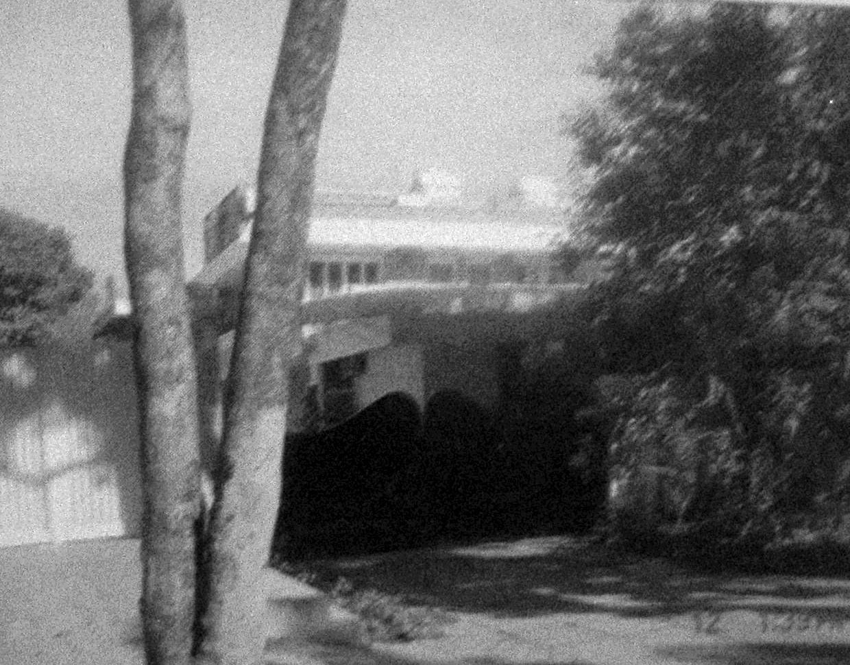 House where Ramzi Yousef was captured in Islamabad, Pakistan.